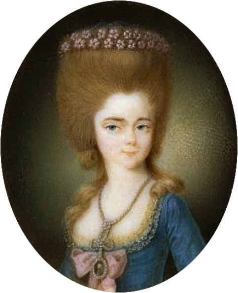 Elisabeth Wilhelmine Louise Princesse of Württemberg 1767-1790, first wife of Archduke Franz Joseph Karl, later Emperor Francis II of Holy Roman Empire (Francis I of Austria)